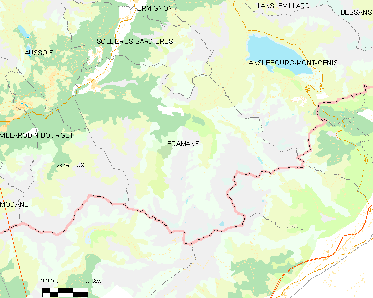 Map of French municipality